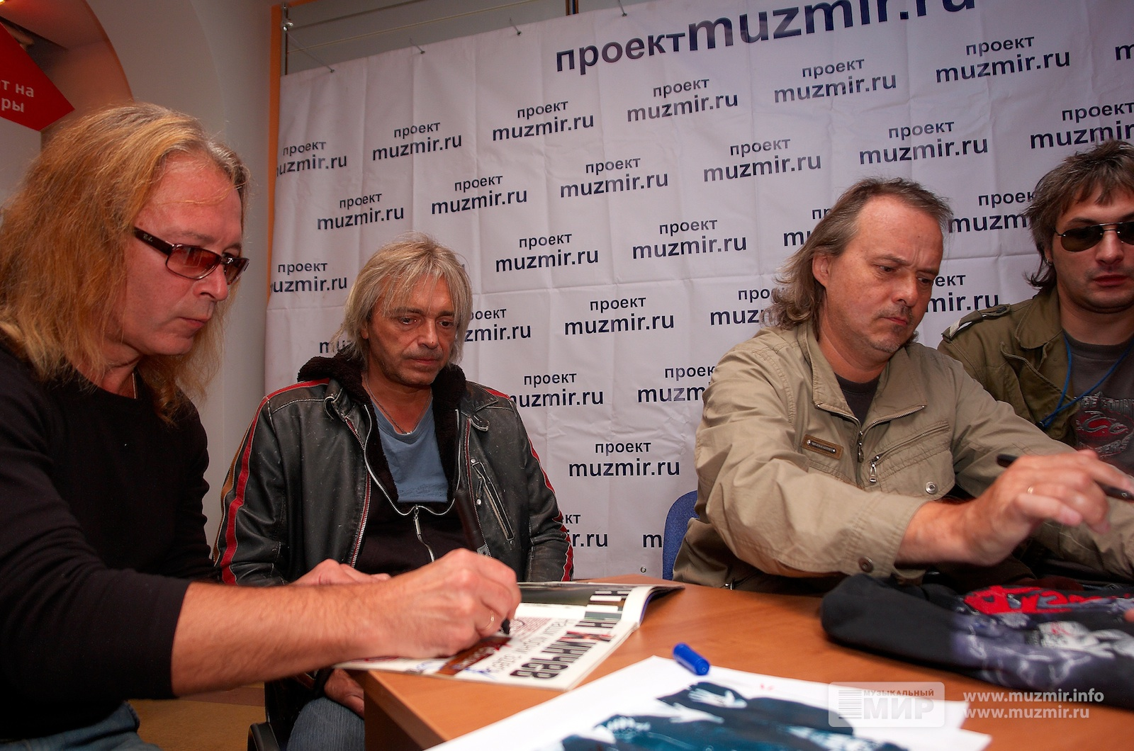 Russian rock band ALisa